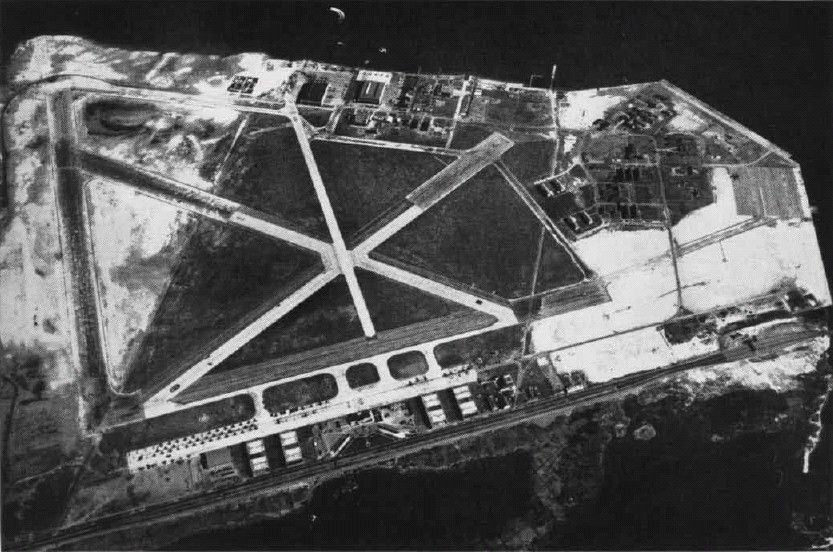 The Naval Air Station New York, New York State, USA, about 1947.